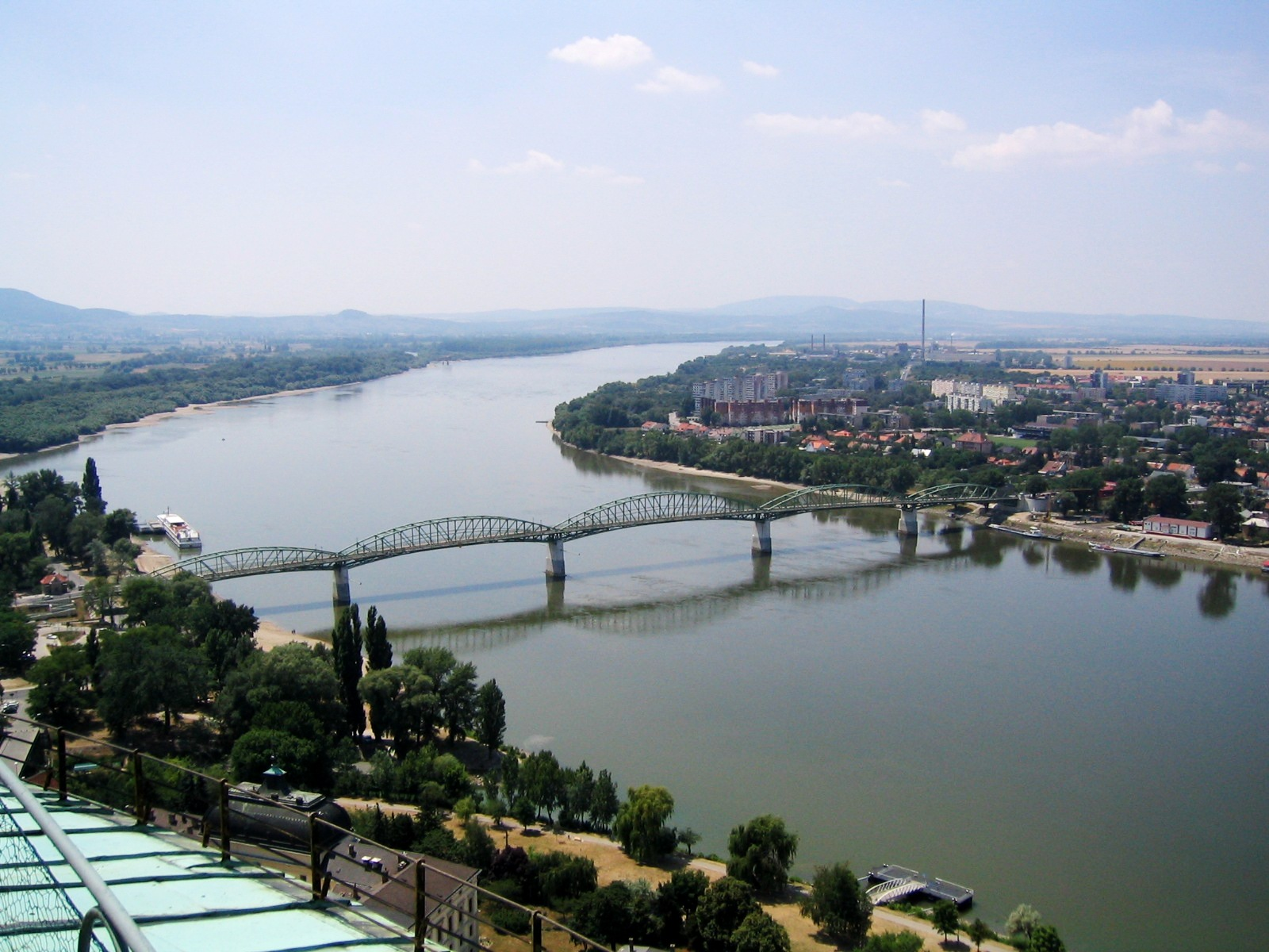 The Mária Valéria bridge, connecting Esztergom in Hungary with Štúrovo in Slovakia, constructed 2001. Photo taken by AlanFord, from Esztergom Basilica, 2003-06-30. PD-self